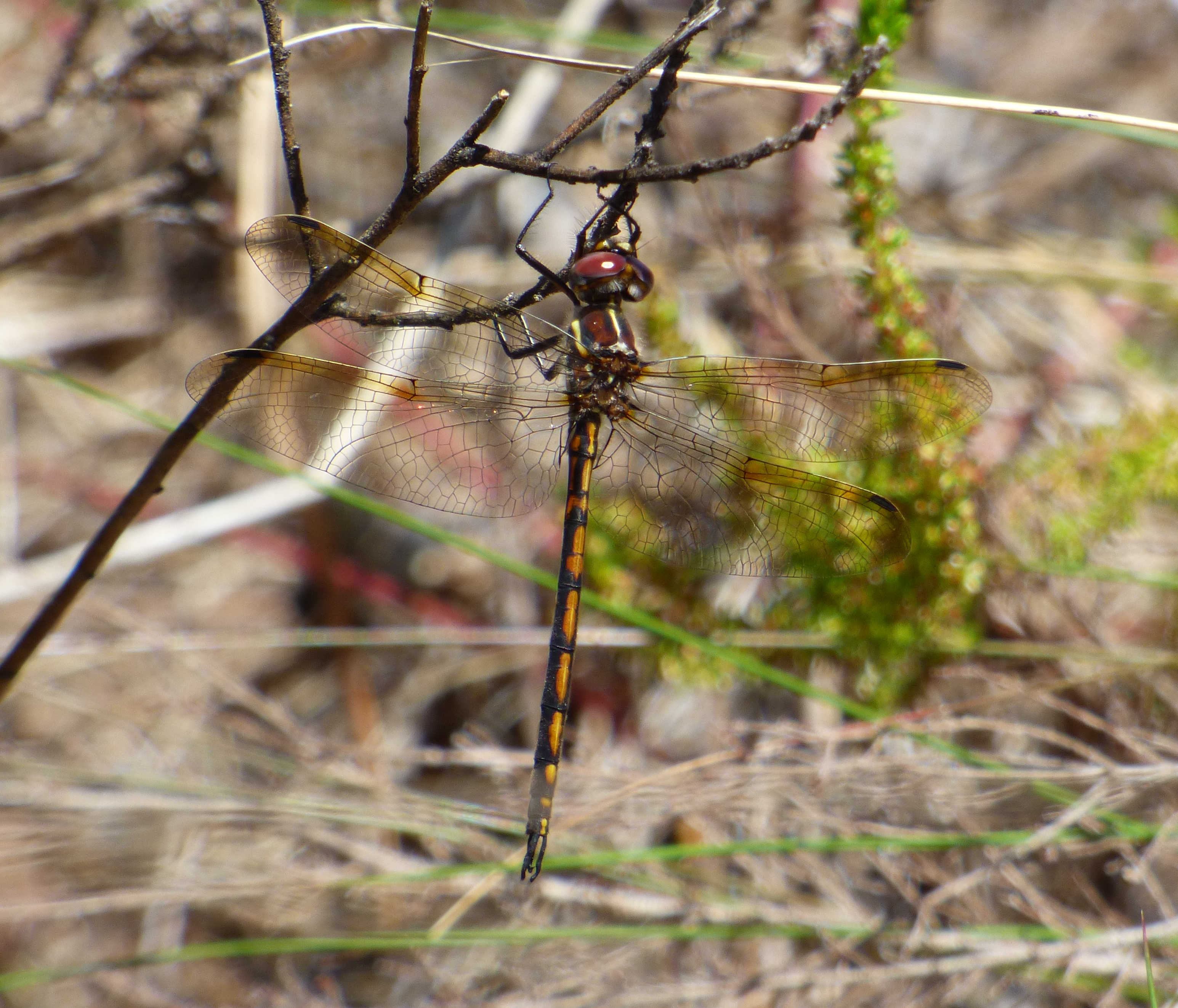 Yellow Presba male